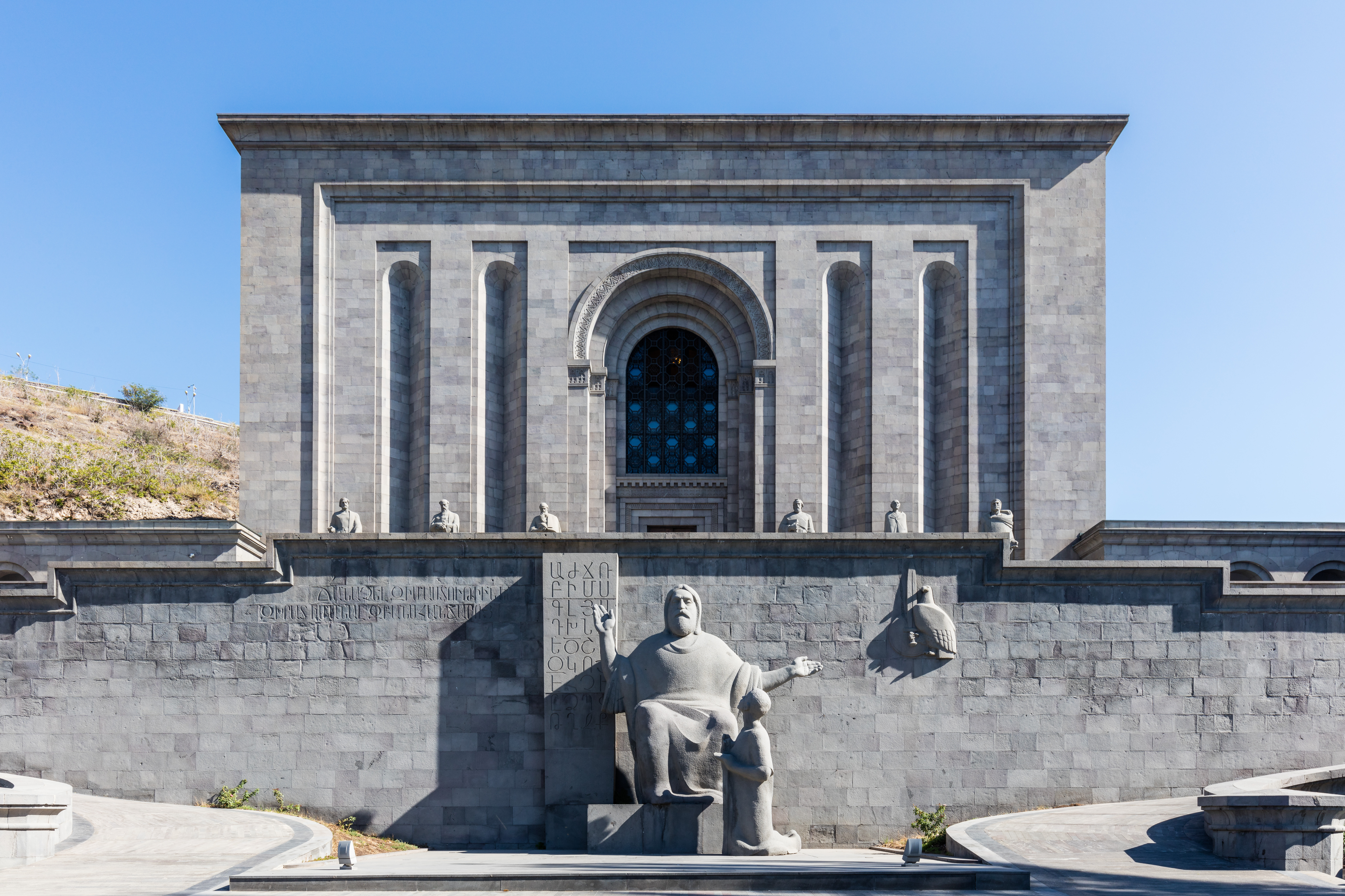 Matenadaran, Yerevan, Armenia